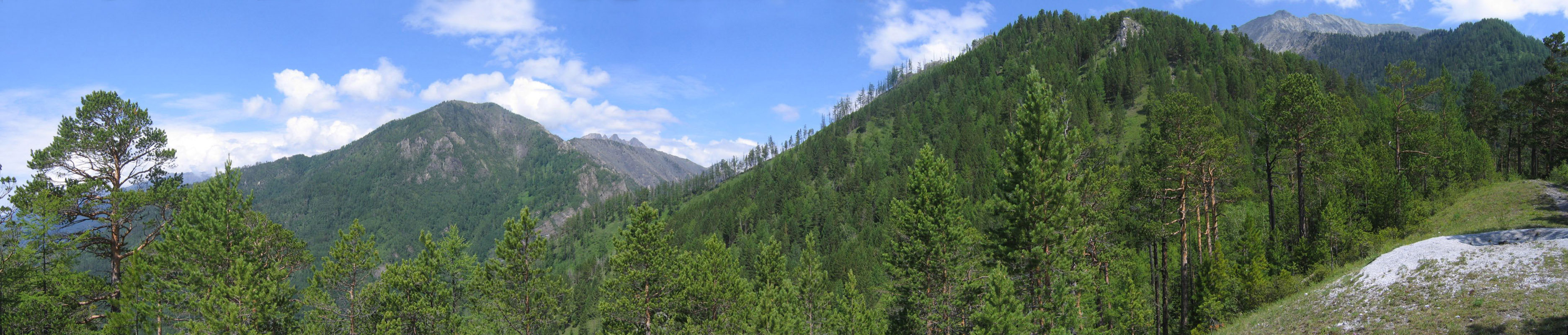 Trees are Pinus sylvestris var. mongolica